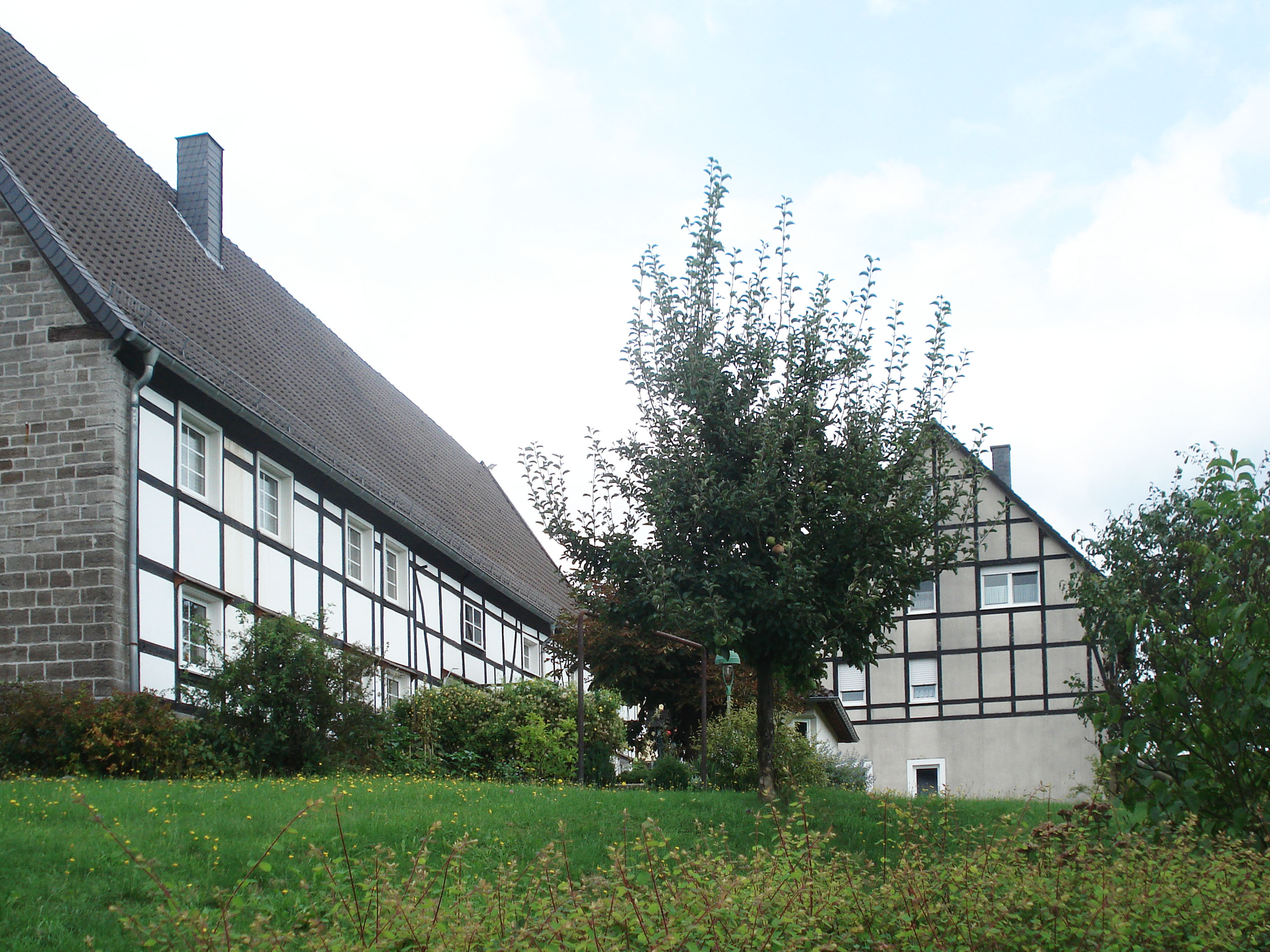 Hagen-Eppenhausen farmhouse